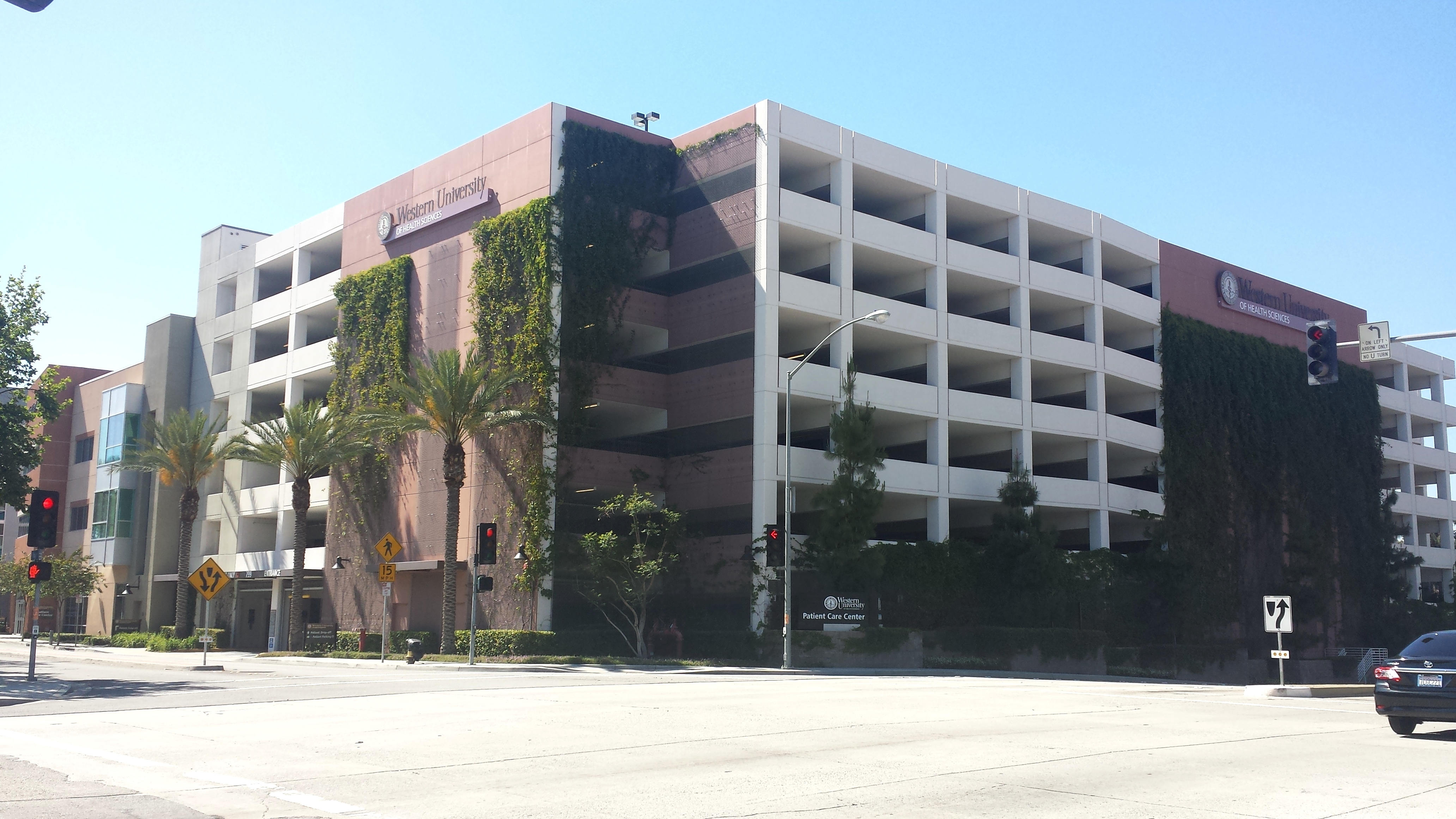 This is a photograph of a parking structure on the main campus of Western University of Health Sciences in Pomona, California.